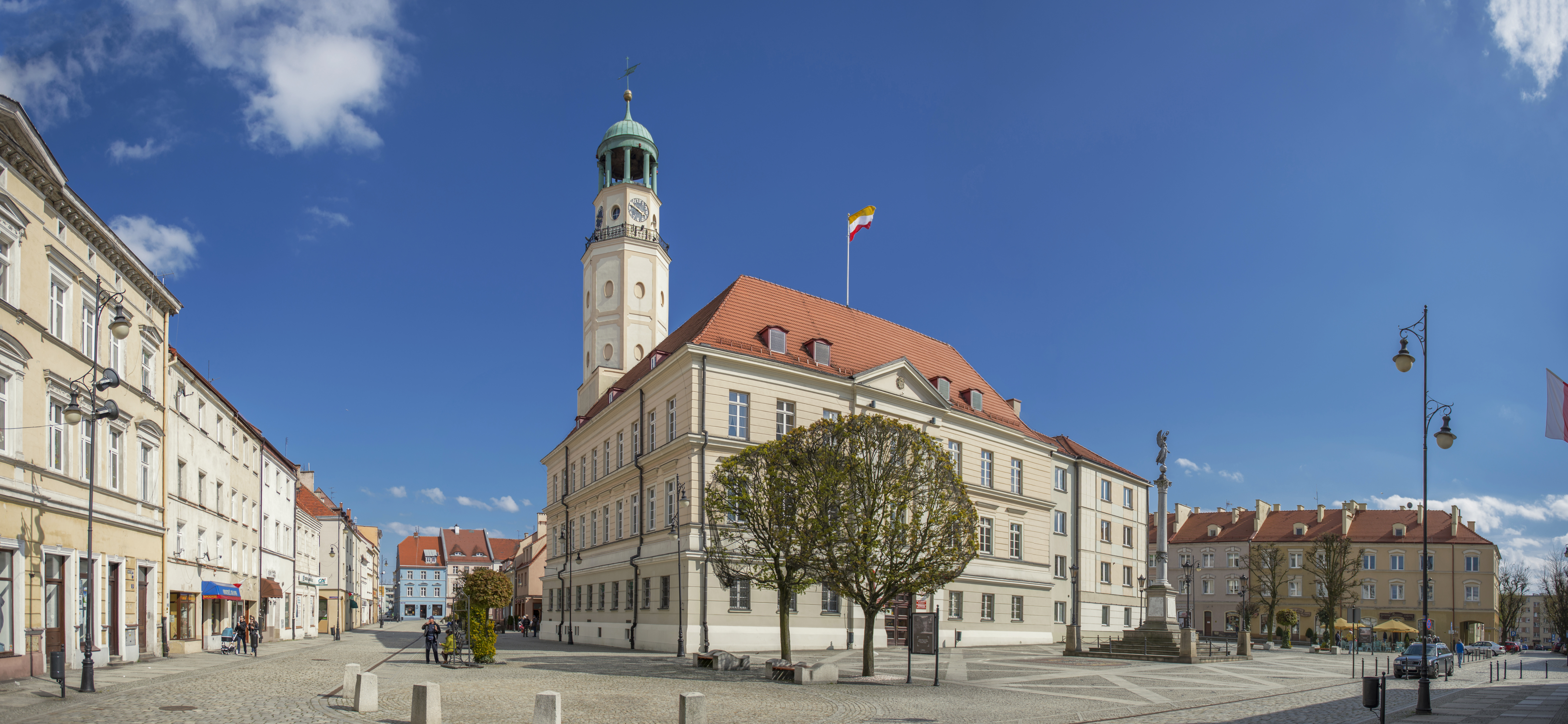 Market Square and Town Hall